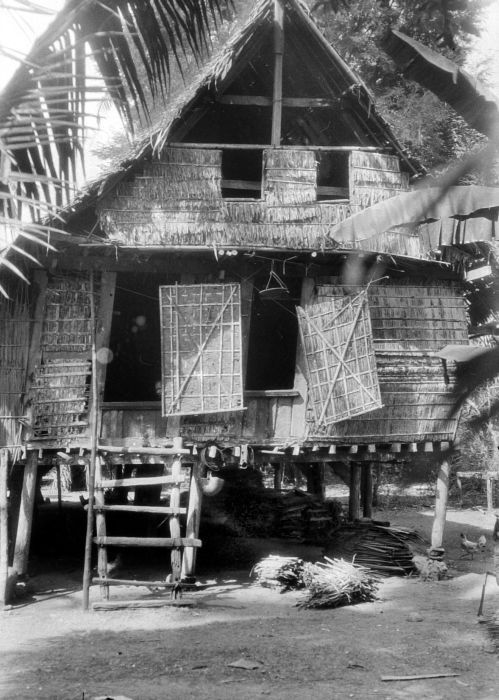 House